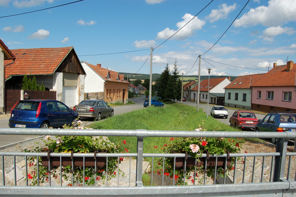 Spesov - brook